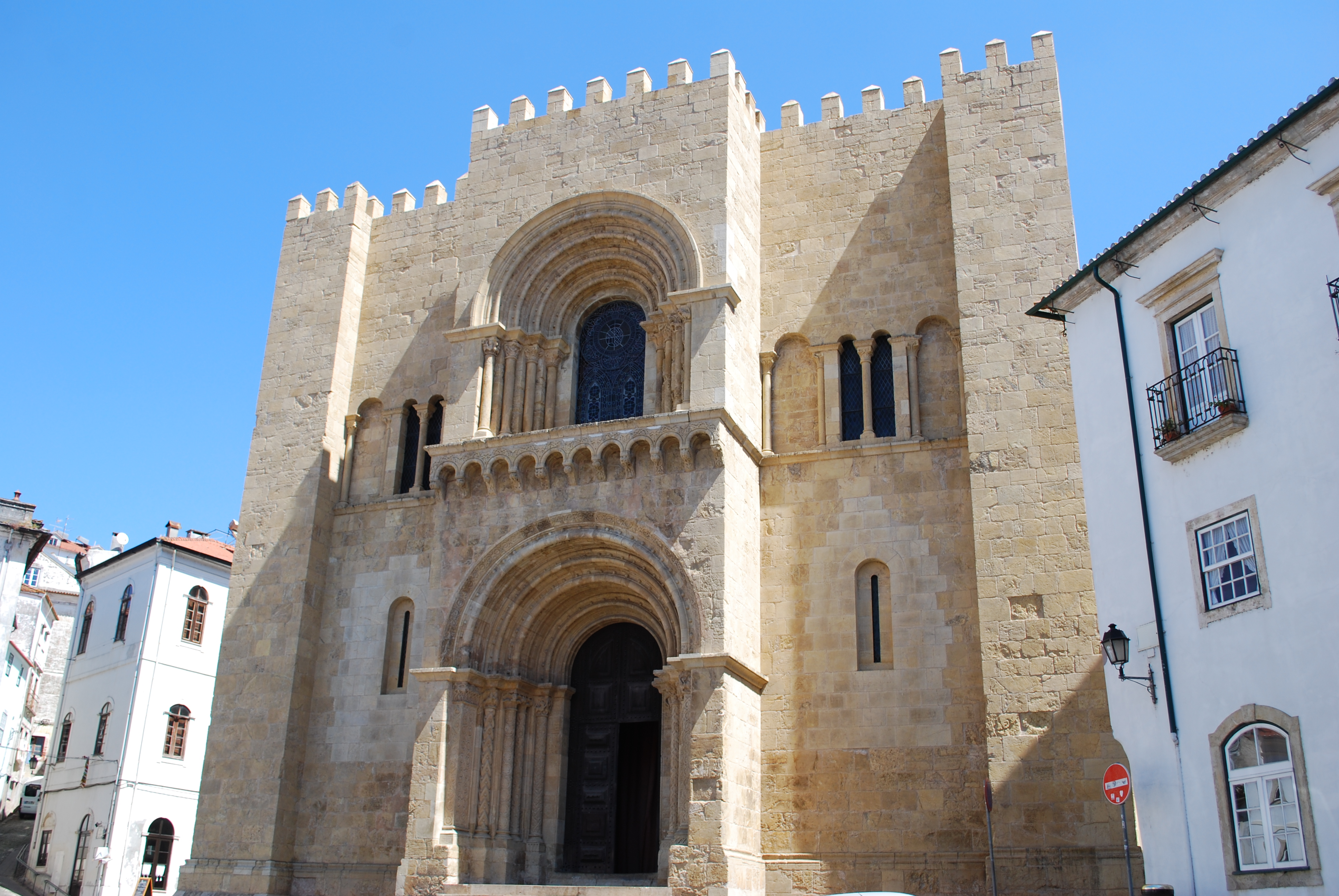 This file was uploaded for Wiki Loves Monuments in Portugal with the unique identifier 70529.